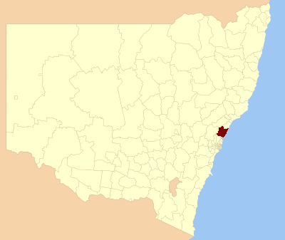 Map of Central Coast LGA derived from and colouring in the neighbouring Wyong LGA